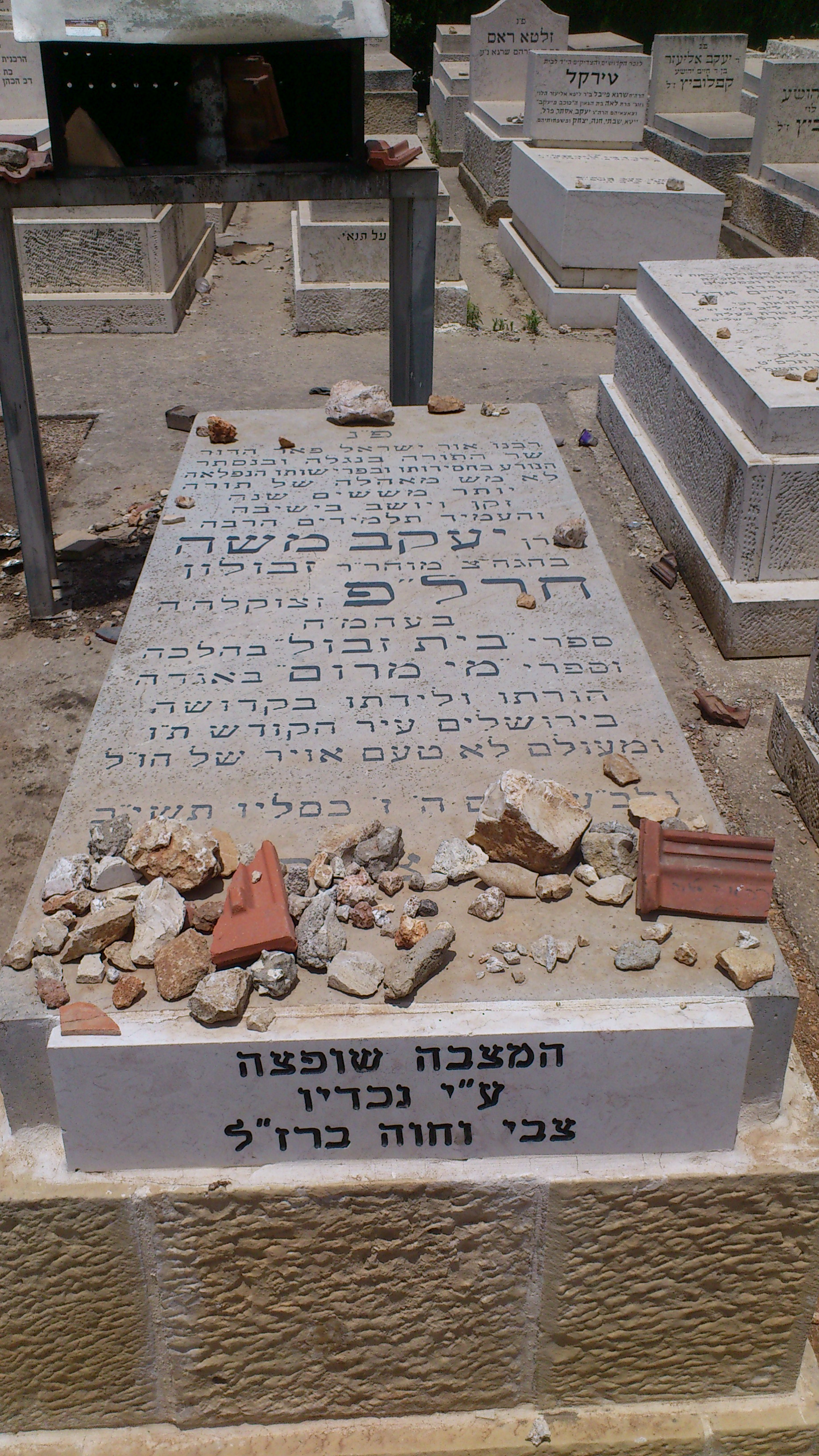 Yaakov Moshe Charlap